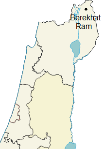 Map of the archaeological site of Berekhat Ram, where was found the so-called Venus of Berekhat Ram